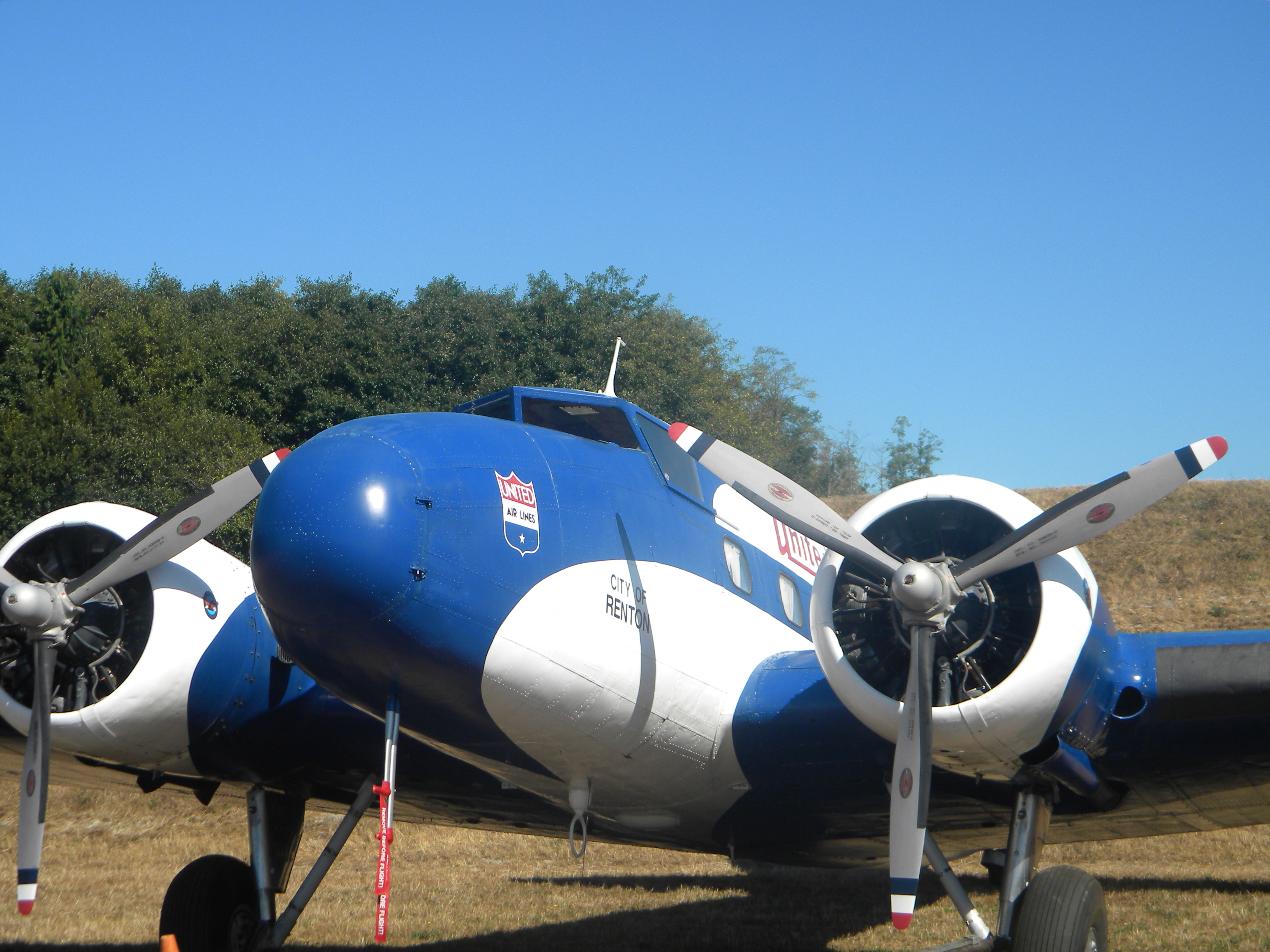 This Boeing 247 is the last (near) airworthy of its kind. Currently it's grounded due to a fatigue condition in its left-side landing gear and is awaiting recertification.